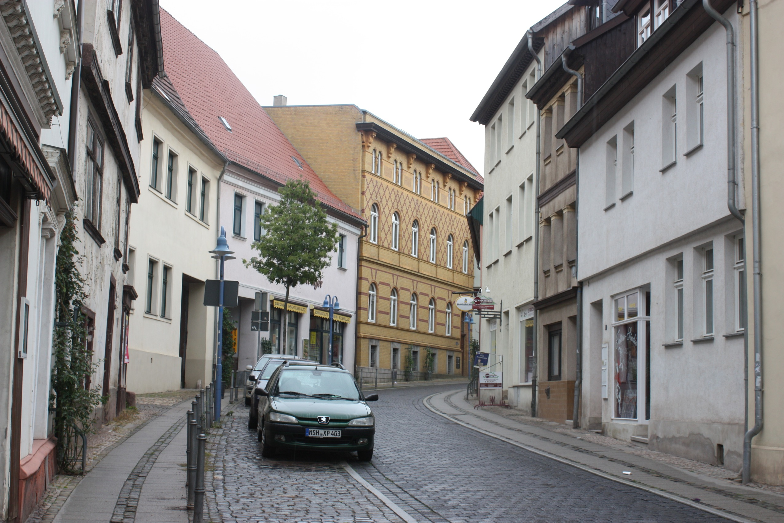 Sangerhausen, Magdeburger Straße, southern part This is a photograph of an architectural monument. 81522